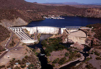 Aerial image of Stewart Mountain Dam